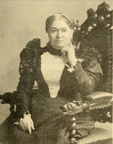 Mrs William Connell (Pennsylvania politician)